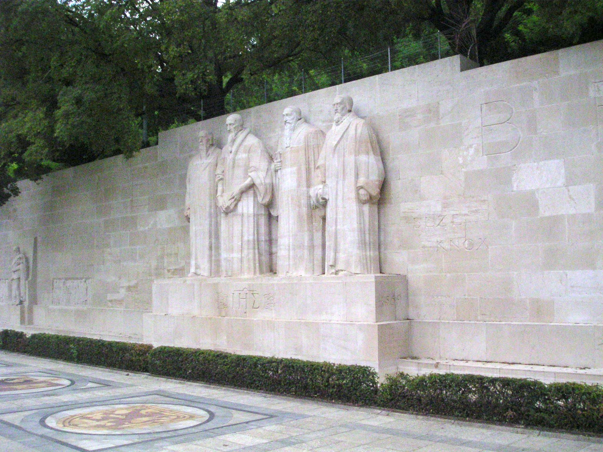 Reformation Wall